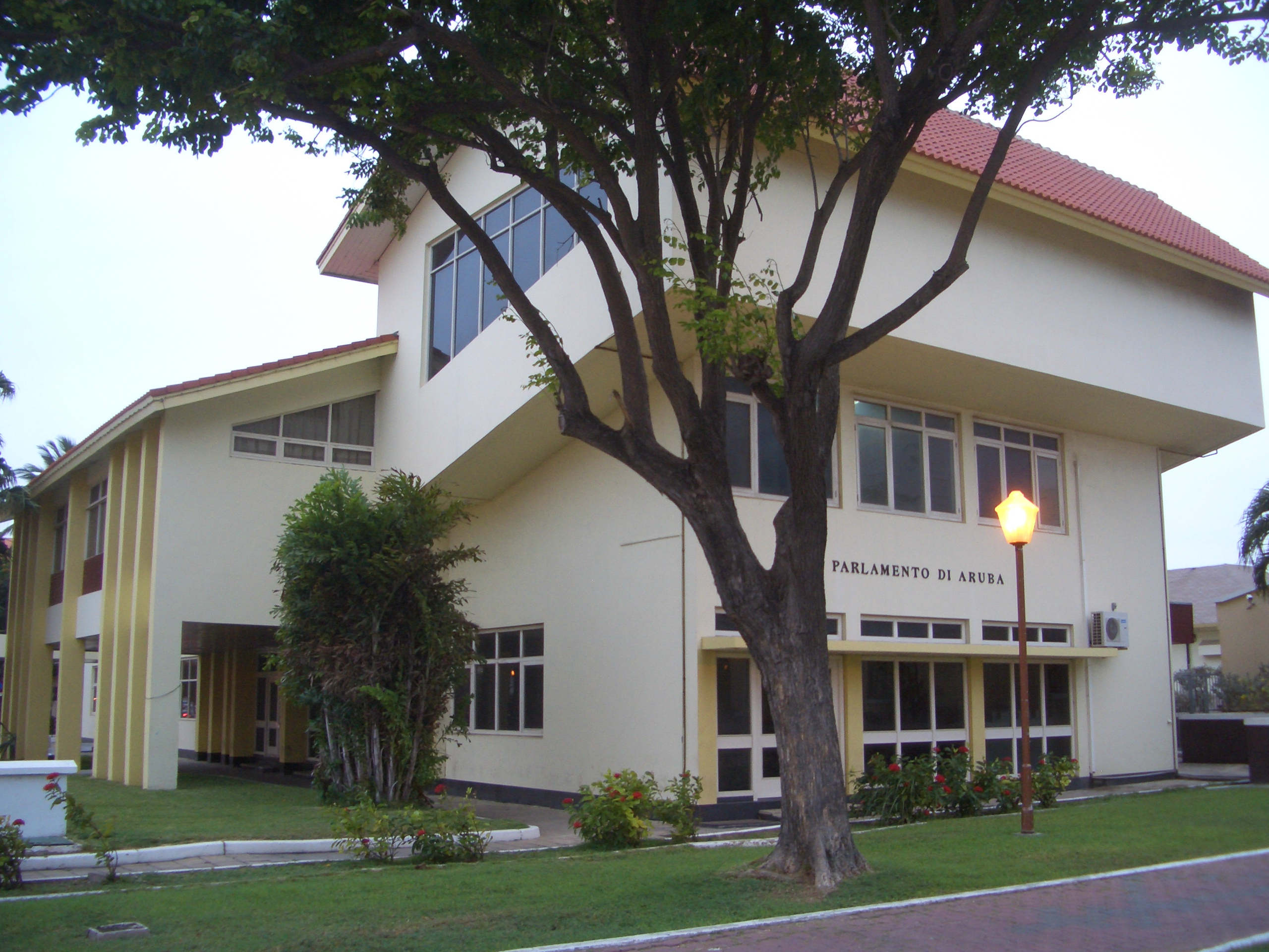 Photograph of the Parliament building in Oranjestad, Aruba. Taken by Bkell on 14 July 2006.